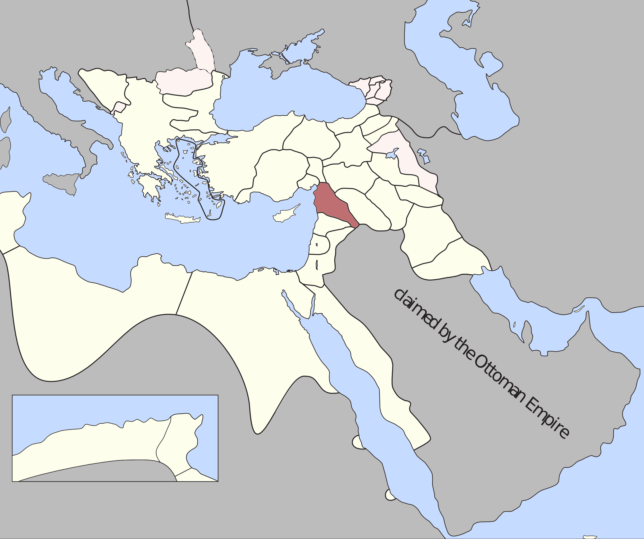 Eyalet of Aleppo — Ottoman Empire (1795). Source: A Brief History of the Late Ottoman Empire at Google Books By M. Sukru Hanioglu, Figure 1